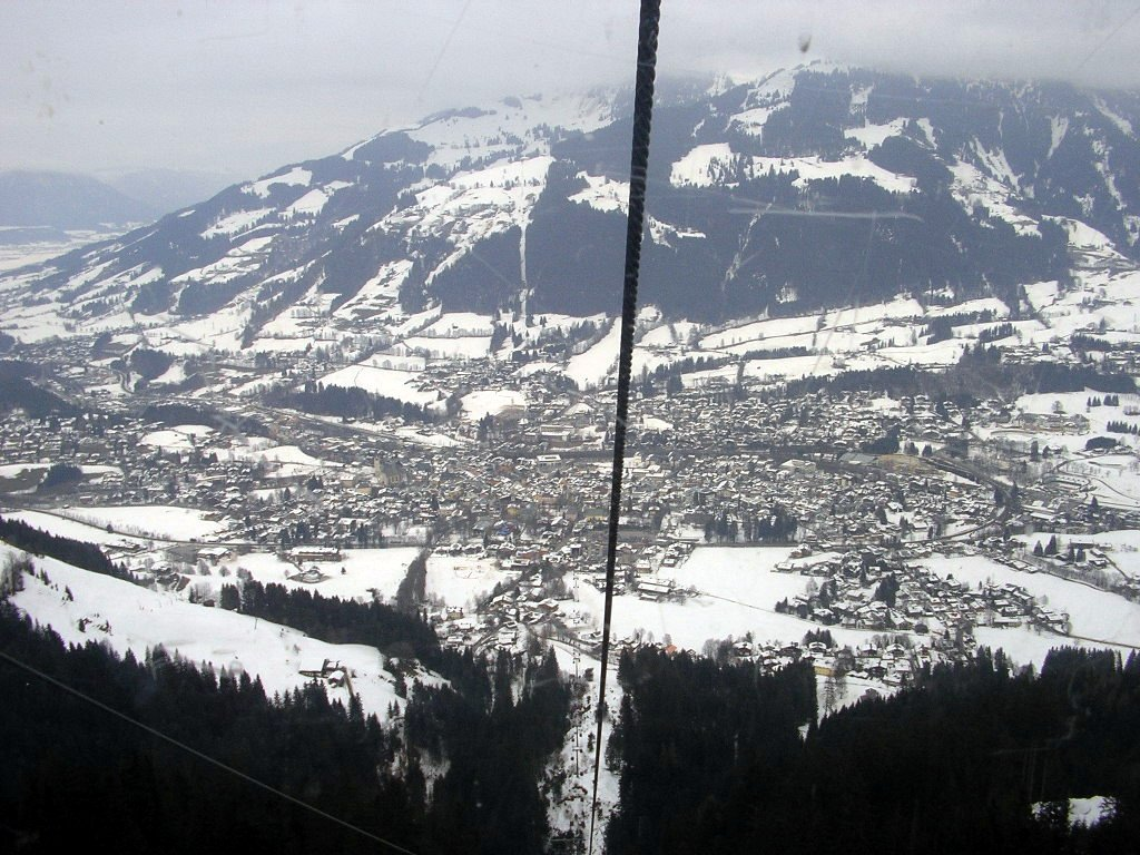 View of Kitzbuhel from Hanenkahmbahn lift.